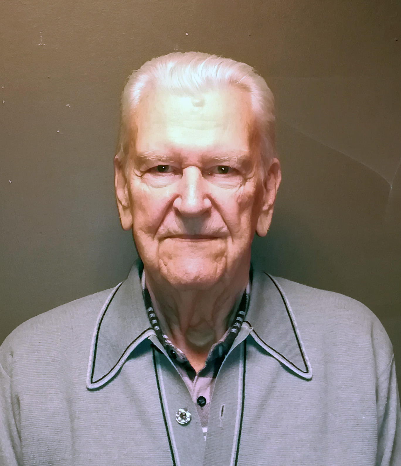 Estonian historian Märt Tänava